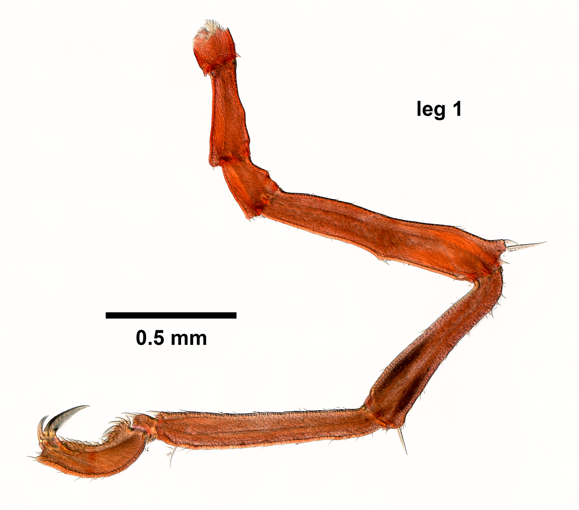 PRESERVED_SPECIMEN; FEMALE; ; microslide; Det. by: L. R. McCloskey; GM Image; Gray Museum; IZ number 77347; lot count 1; Microslide 01, balsam, leg(s); Microslide 02, balsam, body; Microslide 02, balsam, ovigerous leg; Microslide 02, balsam, egg(s); Microslide 03, balsam, leg 1; Microslide 03, balsam, ovigerous leg; fema; 1967-07-17T00:00:00Z